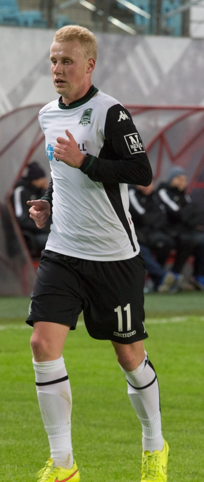 Vyacheslav Podberyozkin with FC Krasnodar in a game against FC Dynamo Moscow on 4 April 2016.